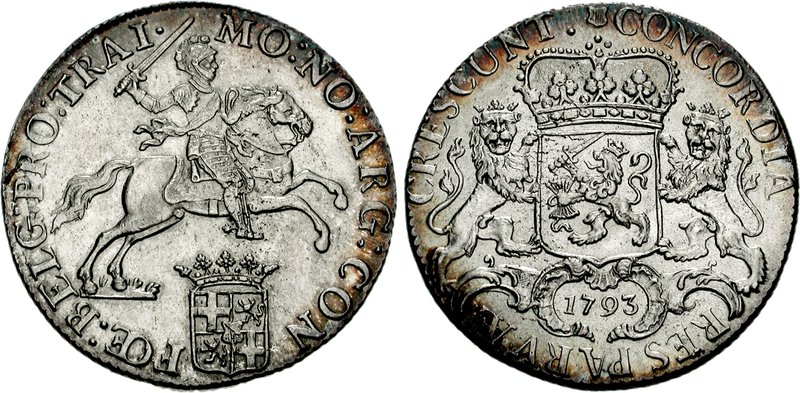 Low Countries, Utrecht (Stad). AR Ducaton (32.58 g, 12h). Dated 1793. Knight on horseback right, holding sword and reins; crowned coat-of-arms below Crowned coat-of-arms supported by crowned lions, heads facing, set on floral pattern. P&W Ut 59; KM 47. AU, lustrous and toned.